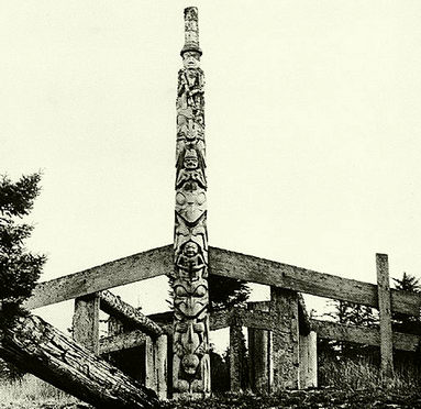 A totem pole pictured in 1884 which was given to the British Museum by Charles F. Newcombe